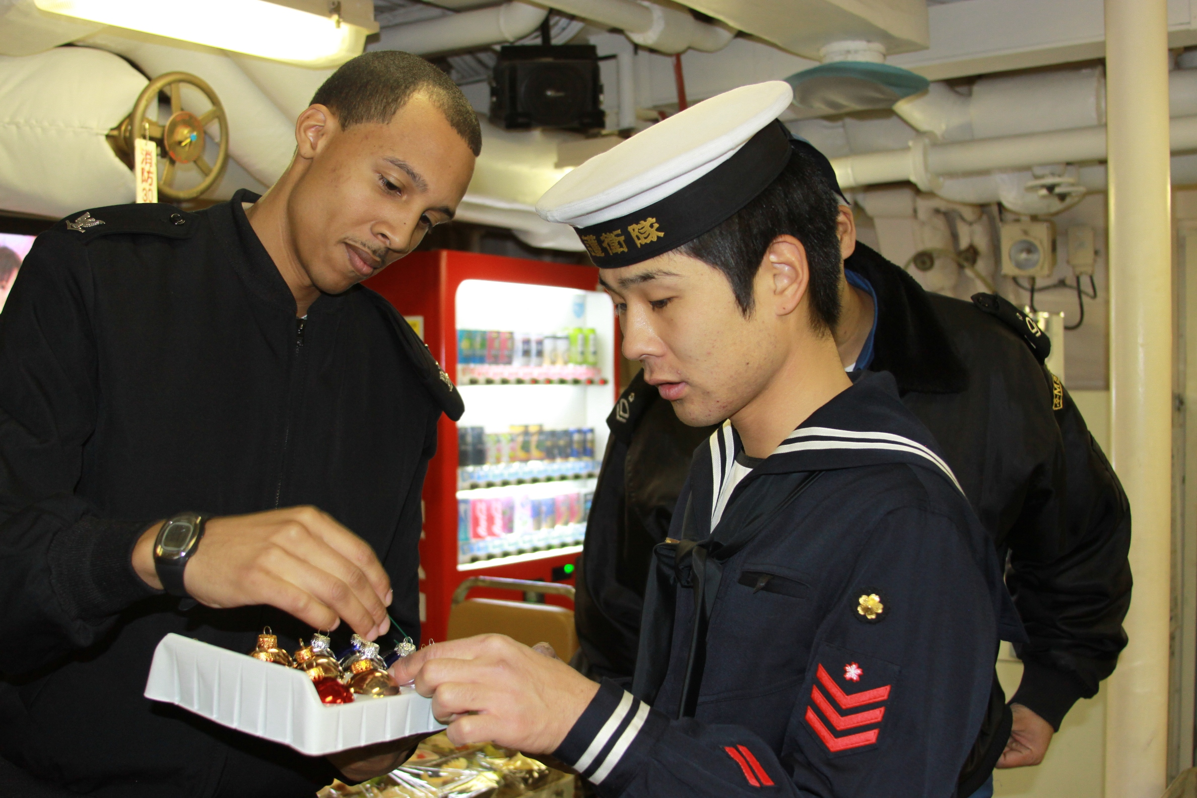 YOKOSUKA, Japan (Dec. 14, 2011) Engineman 3rd Class Jermale Woody helps a Sailor from the Japan Maritime Self-Defense Force destroyer JDS Ikazuchi (DD 107) pick out Christmas ornaments for a Christmas tree. Sailors assigned to Mustin brought the tree as a gift to share an American tradition with their Japanese sister ship. Mustin is one of seven Arleigh Burke-class destroyers assigned to Destroyer Squadron (DESRON) 15 and is forward deployed to the U.S. 7th Fleet area of responsibility. (U.S. Navy photo by Ensign Margaret Morton/Released)